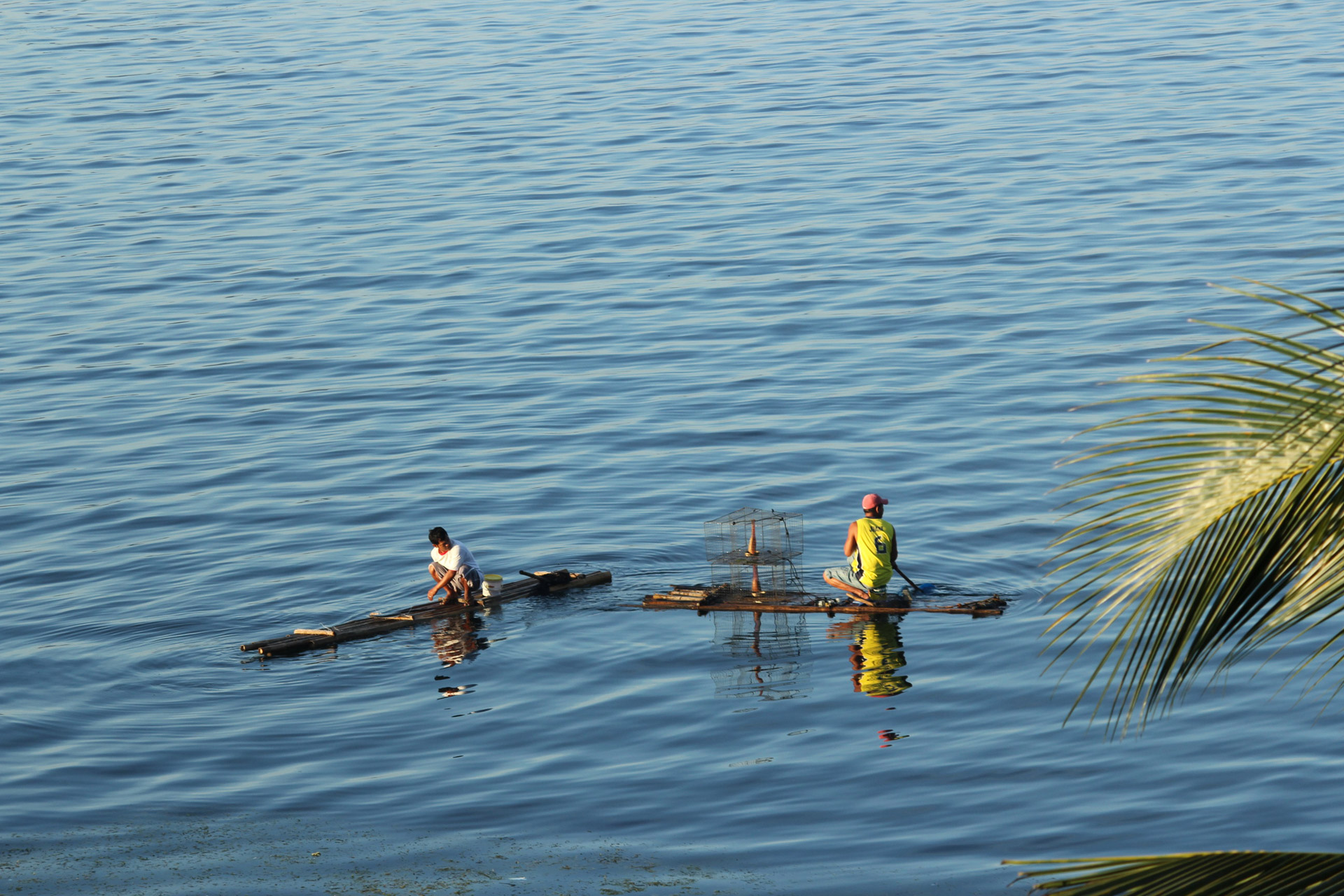 2 Thai fishermen on a boat catching fish